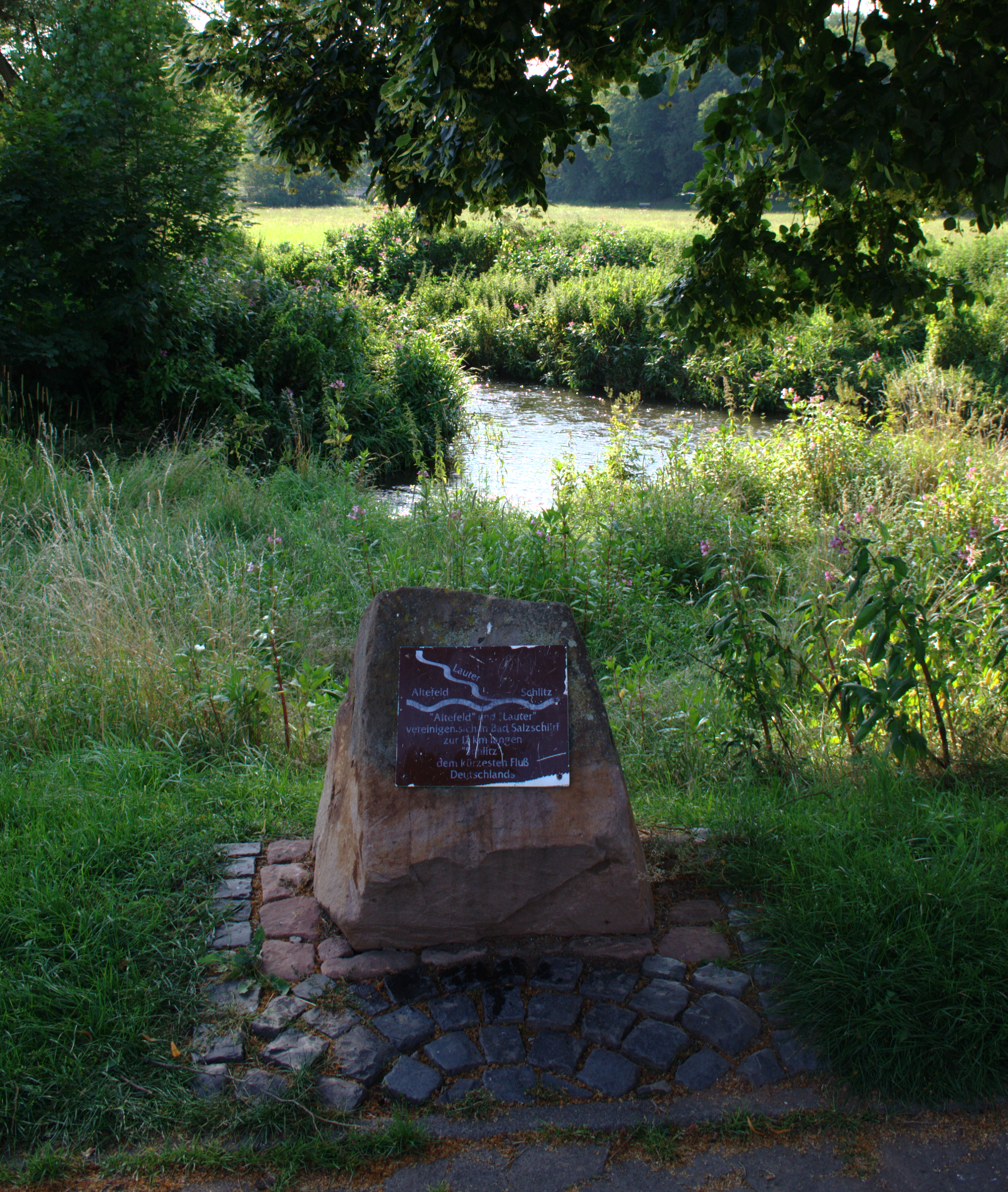 Confluence of the Altefeld (left) and Lauter Rivers (rear) in Bad Salzschlirf creating the Schlitz River (right)